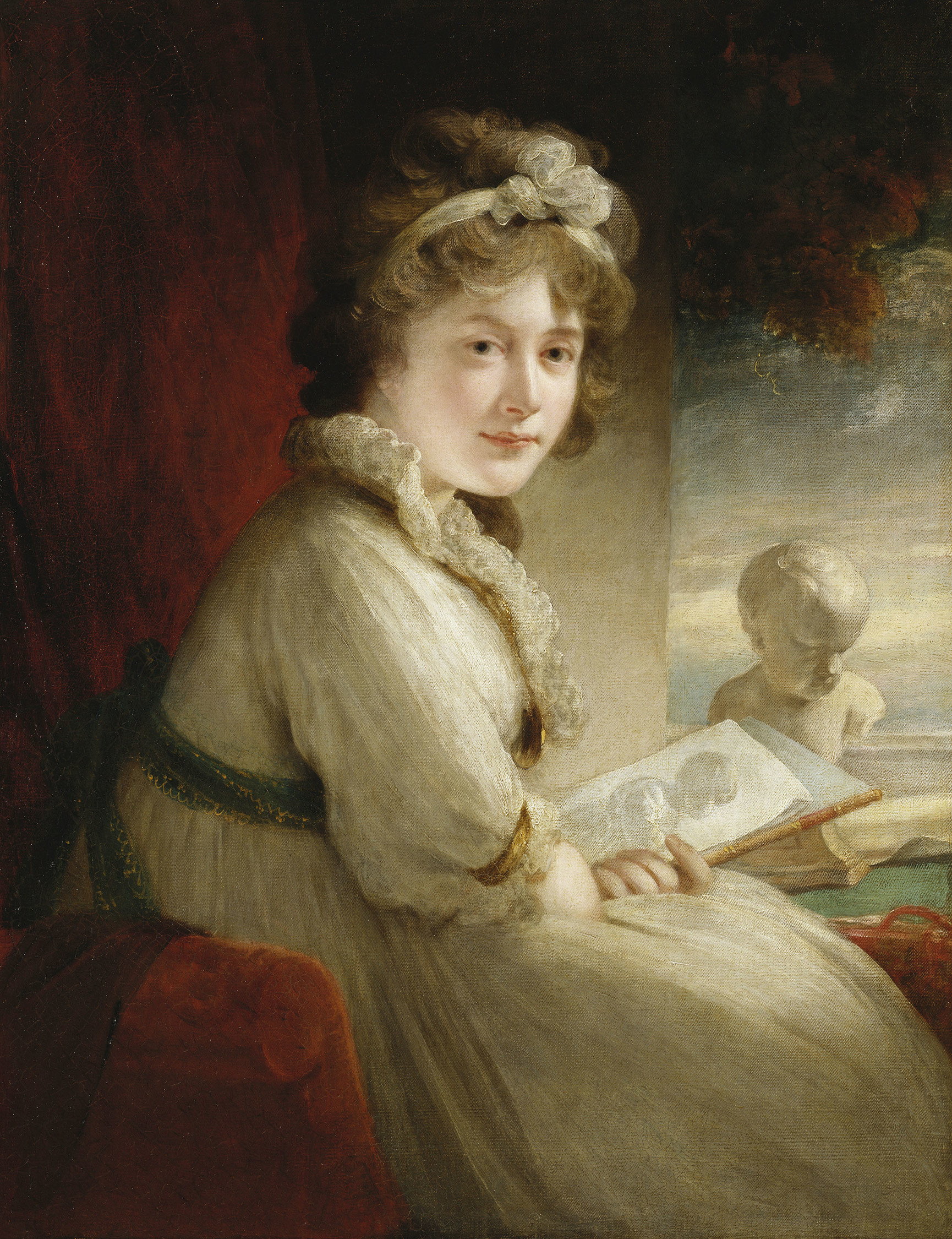 Princess Mary (1776-1857)